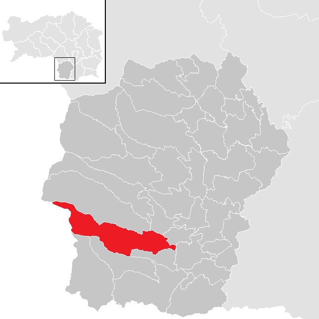 District Deutschlandsberg, Styria, Austria